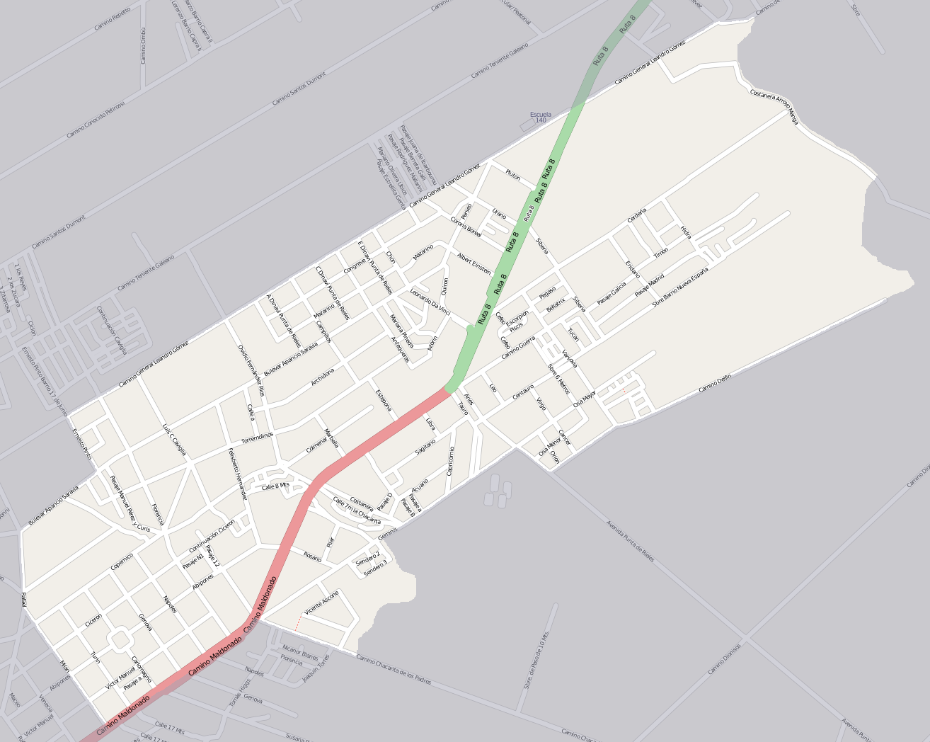 Street map of Punta Rieles - Bella Italia, Montevideo, exported from OpenStreetMap. I added shading to delimit the barrio. This map may be incomplete, and may contain errors. Don't rely solely on it for navigation.